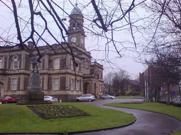 Llanelli Town Hall (Recreated) This is a recreation of the following 1955 picture from the Frith collection: There's remarkably little difference between the two photographs. The trees behind the spot the picture was taken have obviously grown, the cars are more modern and the little chair on which the lady is sitting in 1955 is no longer there.